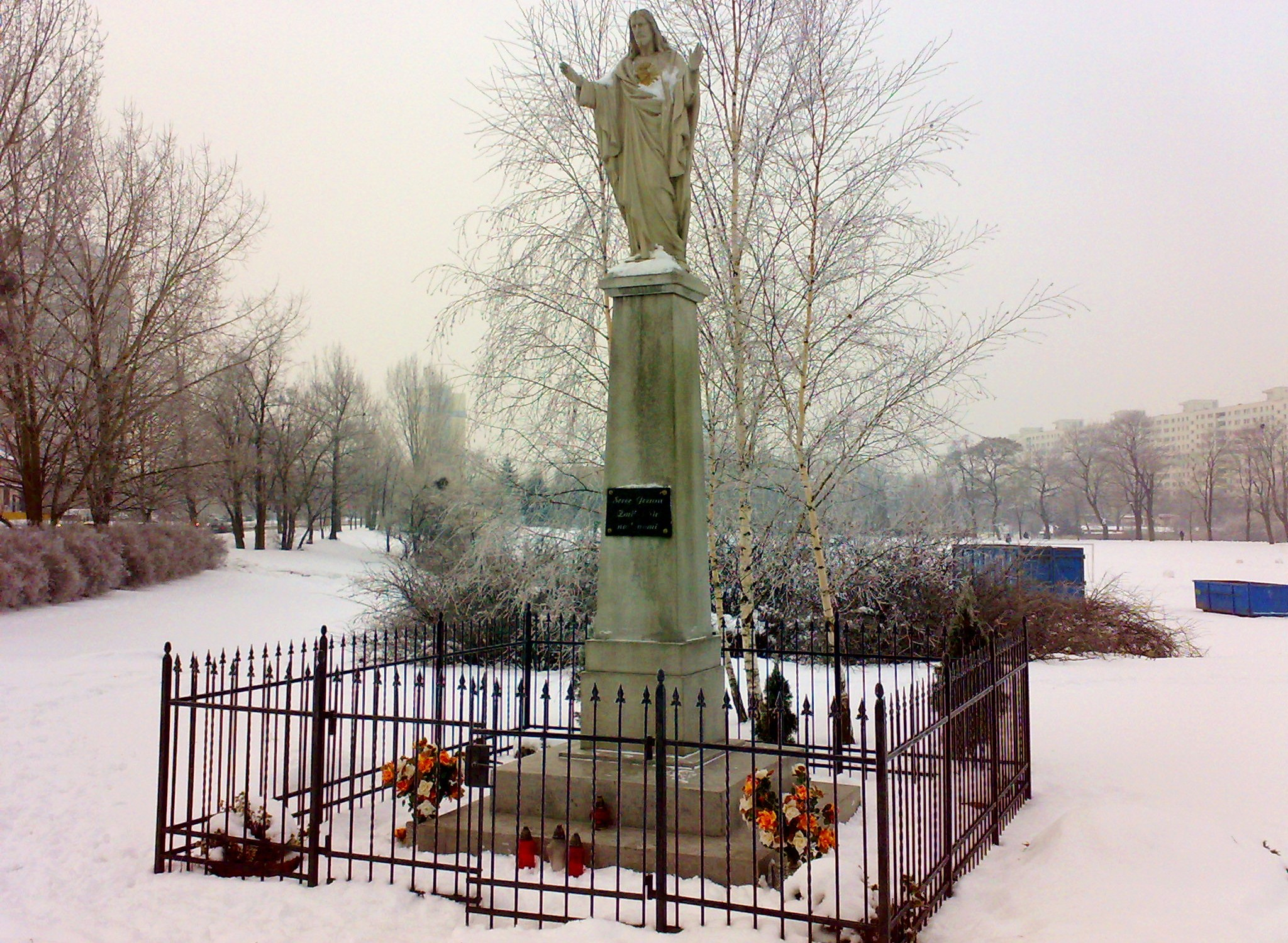 Tysiaclecia District, Poznan.